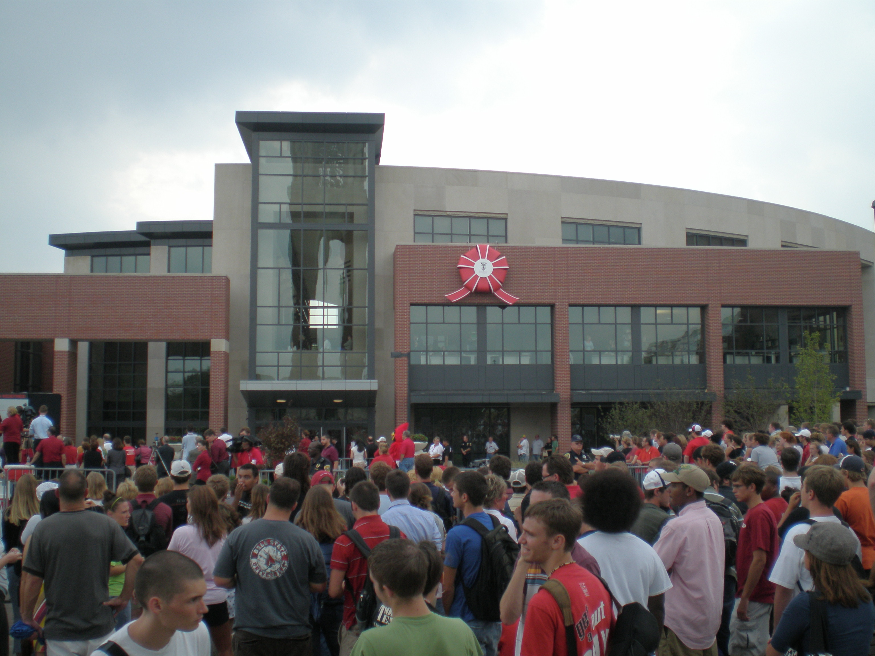 David Letterman Communication and Media Building, Dedication Ceremony, Ball State University, Muncie, Indiana, photo taken by Kyle Flood